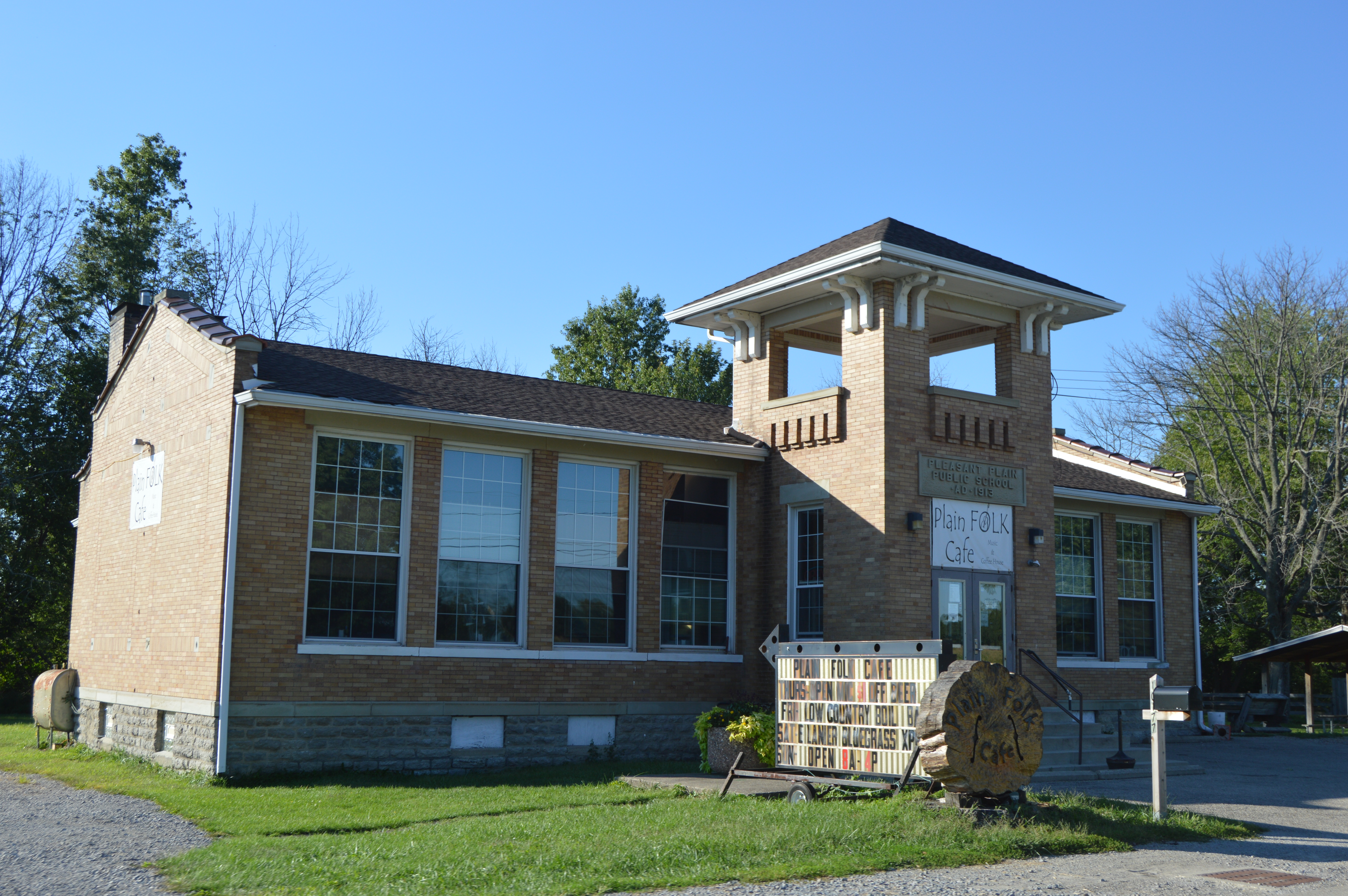 Front and southern side of the former Pleasant Plain school (now a restaurant), located at 10177 Main Street (State Route 132) in Pleasant Plain, Ohio, United States.